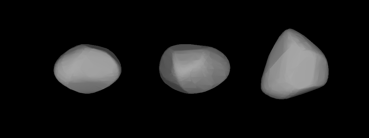 A three-dimensional model of 584 Semiramis that was computed using light curve inversion techniques.